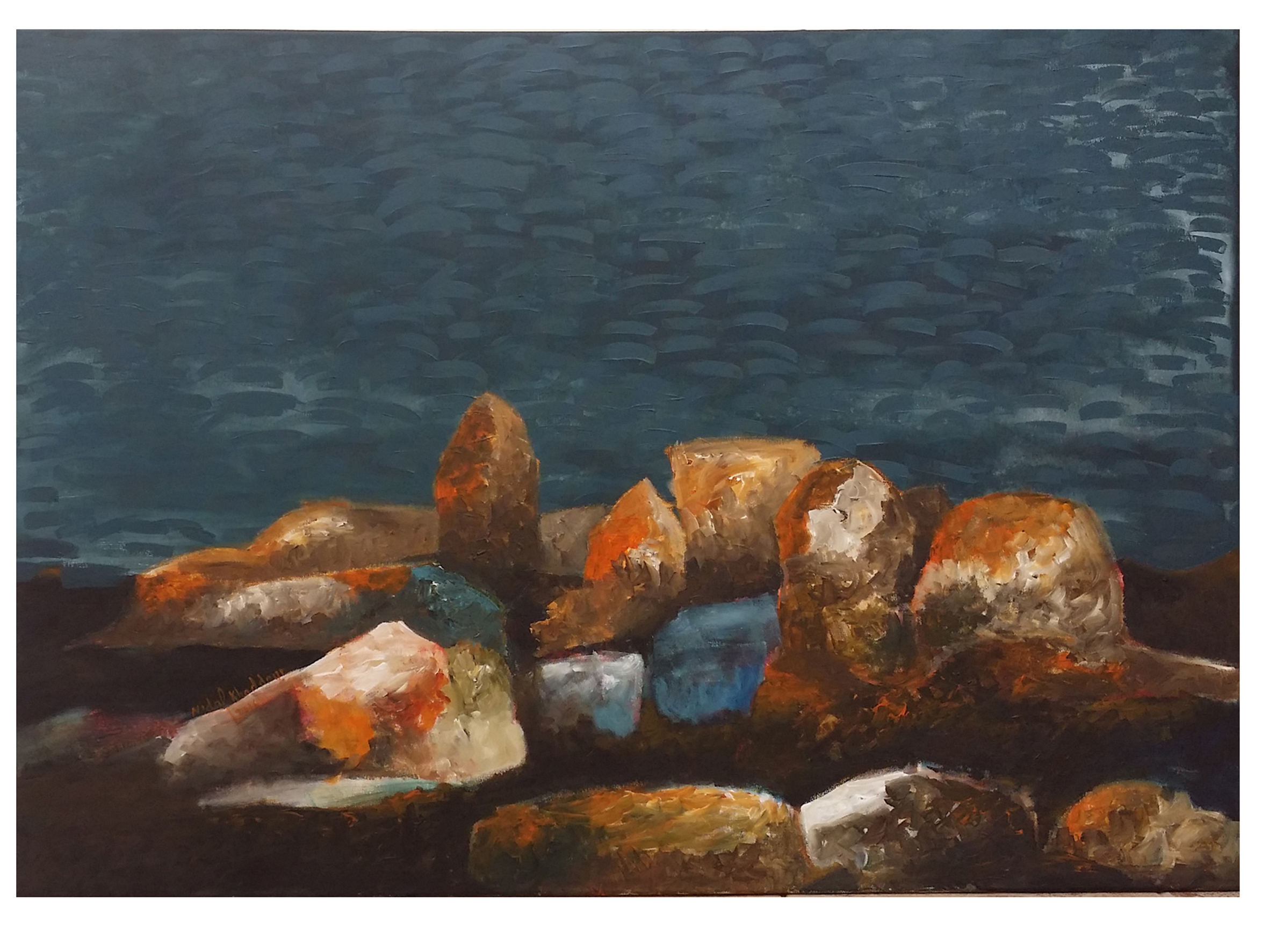 Acrylic on canvas